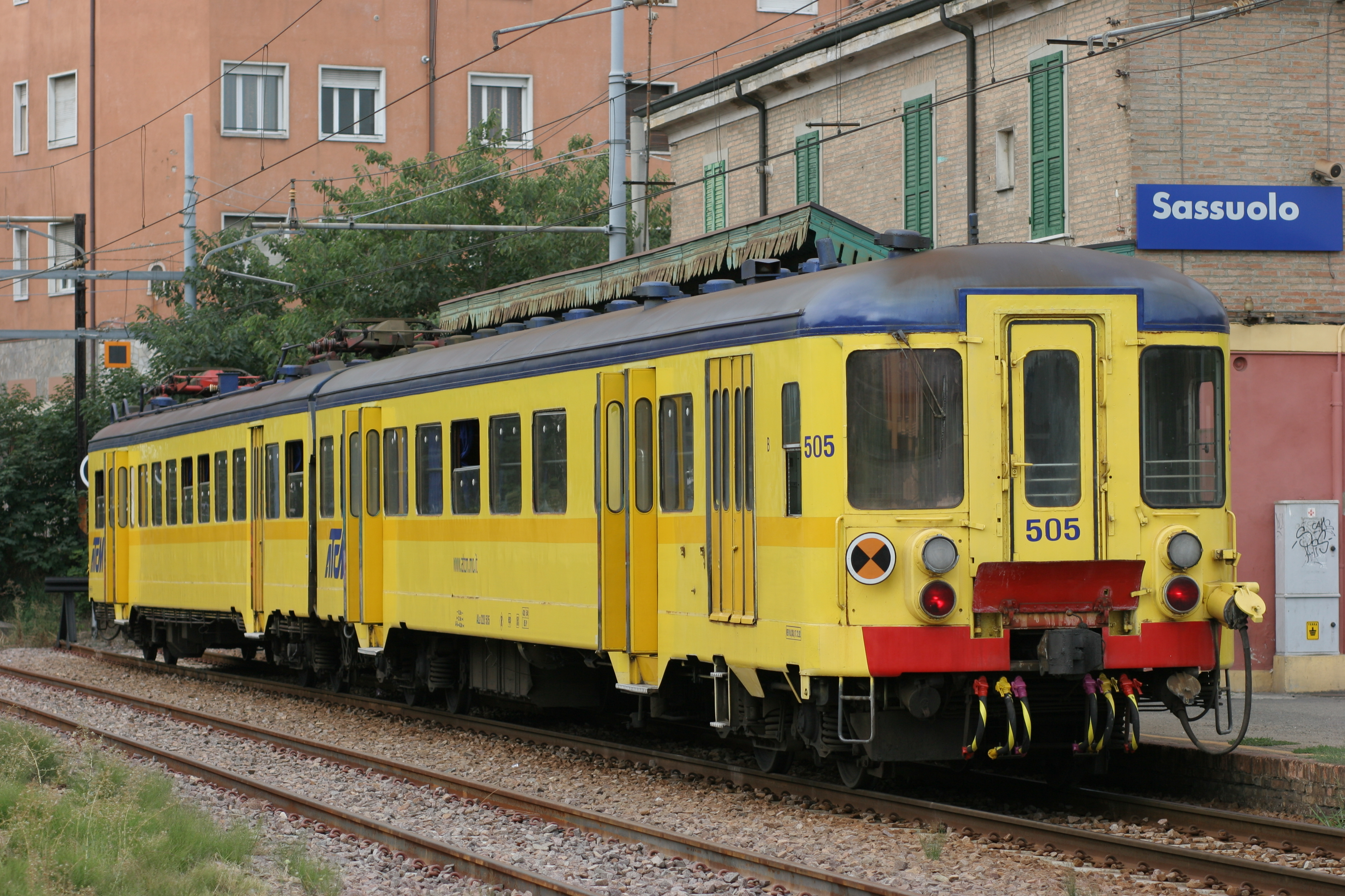 ATCM ALe 228.505 (ex NMBS/SNCB - AM1955) in Sassuolo.